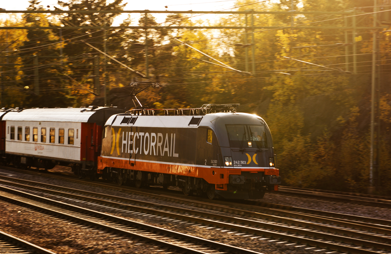 The Siemes Taurus enging, 242 own by Hector Rail with Veolia InterCitytrain 2011